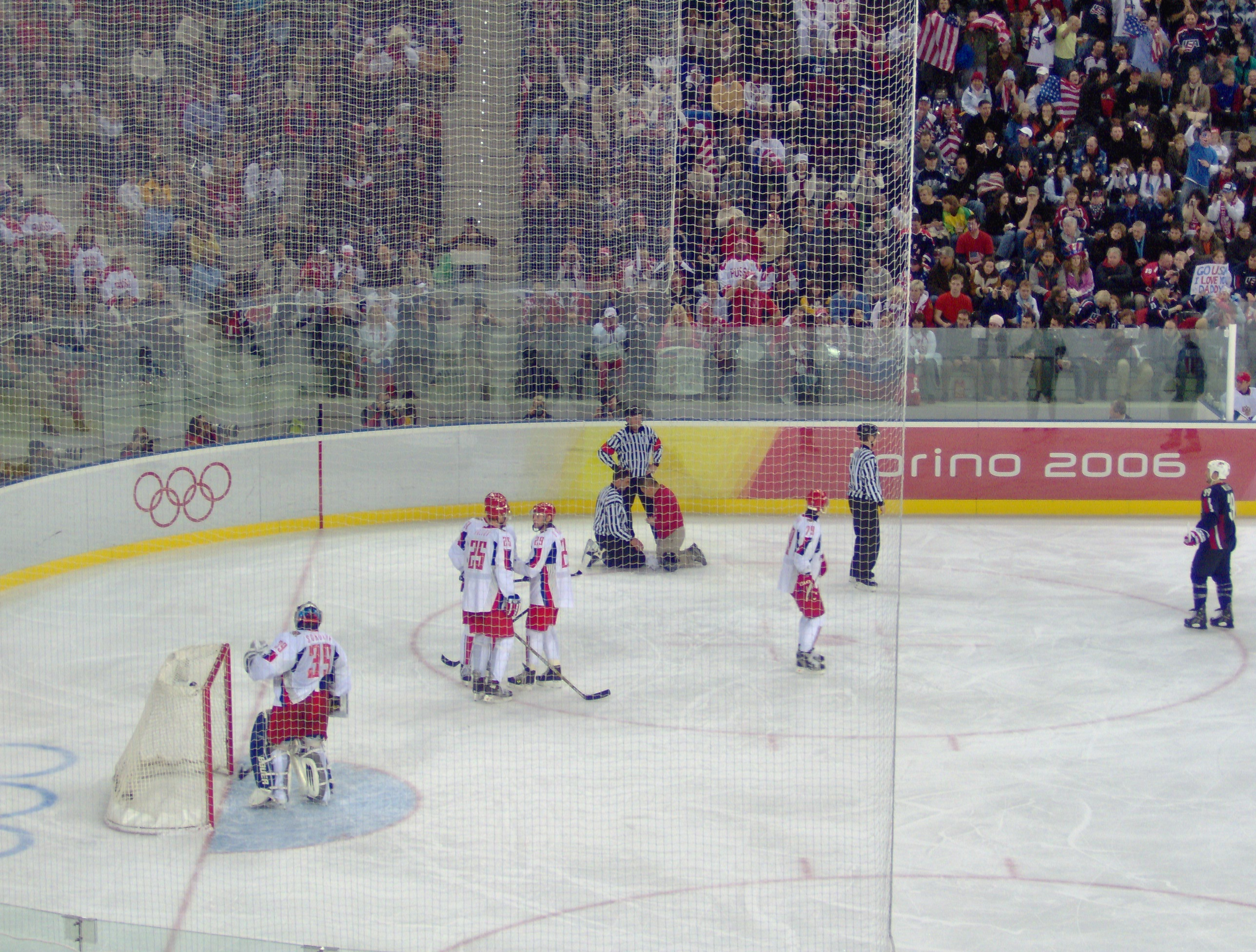 Referee injury during Russia-USA ice hockey match on Torino 2006 Olympic Games